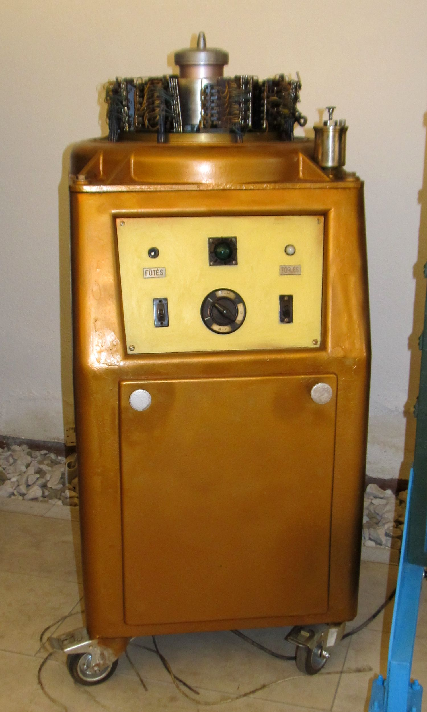 Drum memory of MECIPT-1 at Museum of Banat, Timișoara.